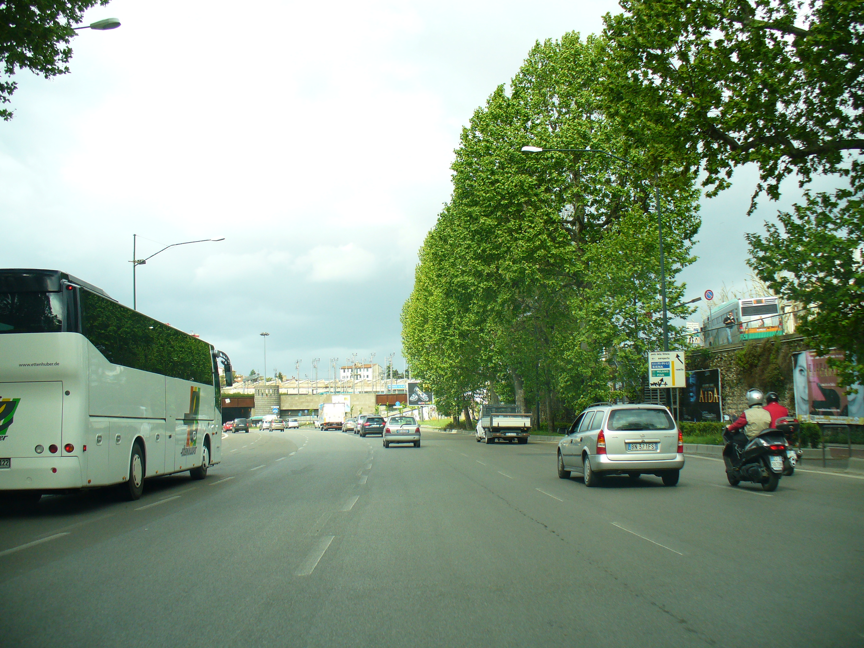 Via Strozzi (Florence)